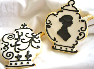 Jane Austen teapot cookie